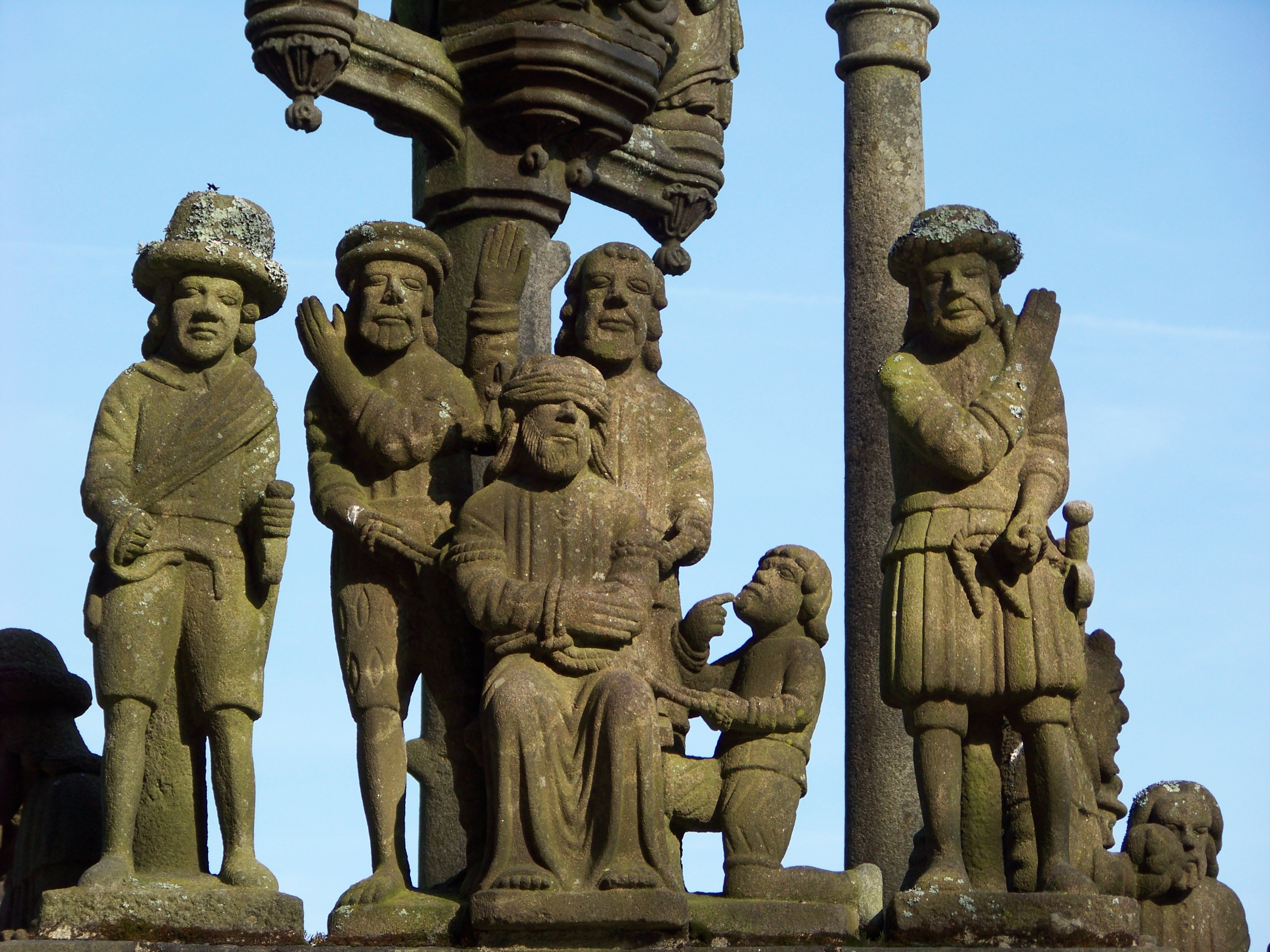 Flagellation of Christ, The calvary, Plougastell Daoulaz, Finistere, Brittany .